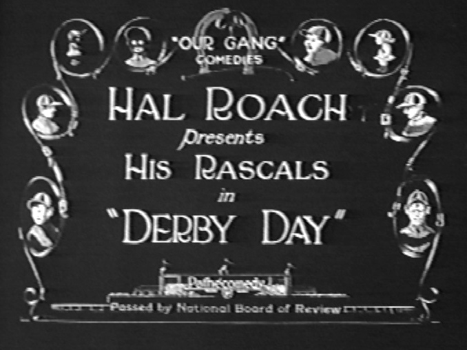 Title card from short subject Derby Day. Copyright MGM, Used to illustrate film being described.